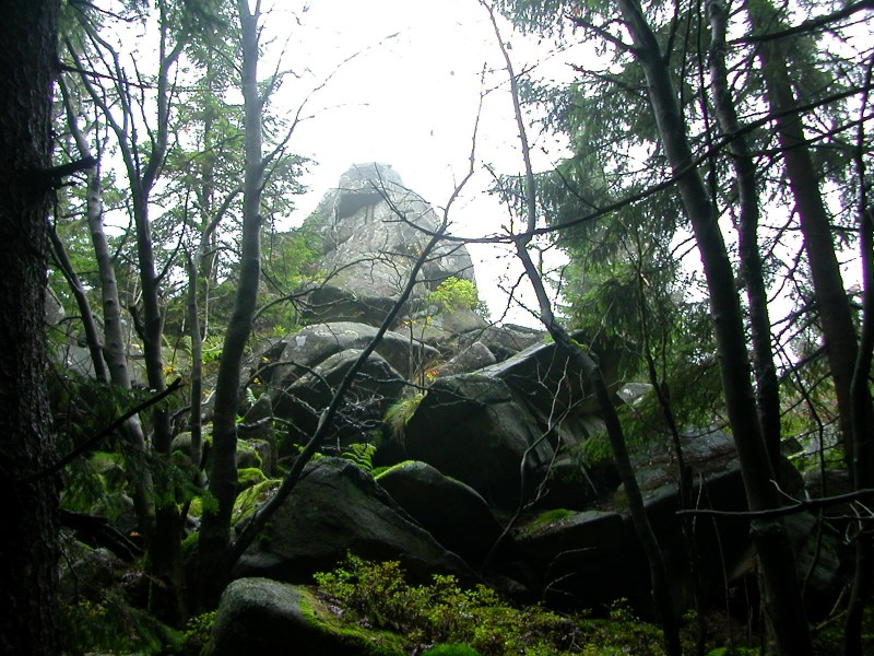 View of the Kapellenklippe rocks in the Harz mountains, Germany